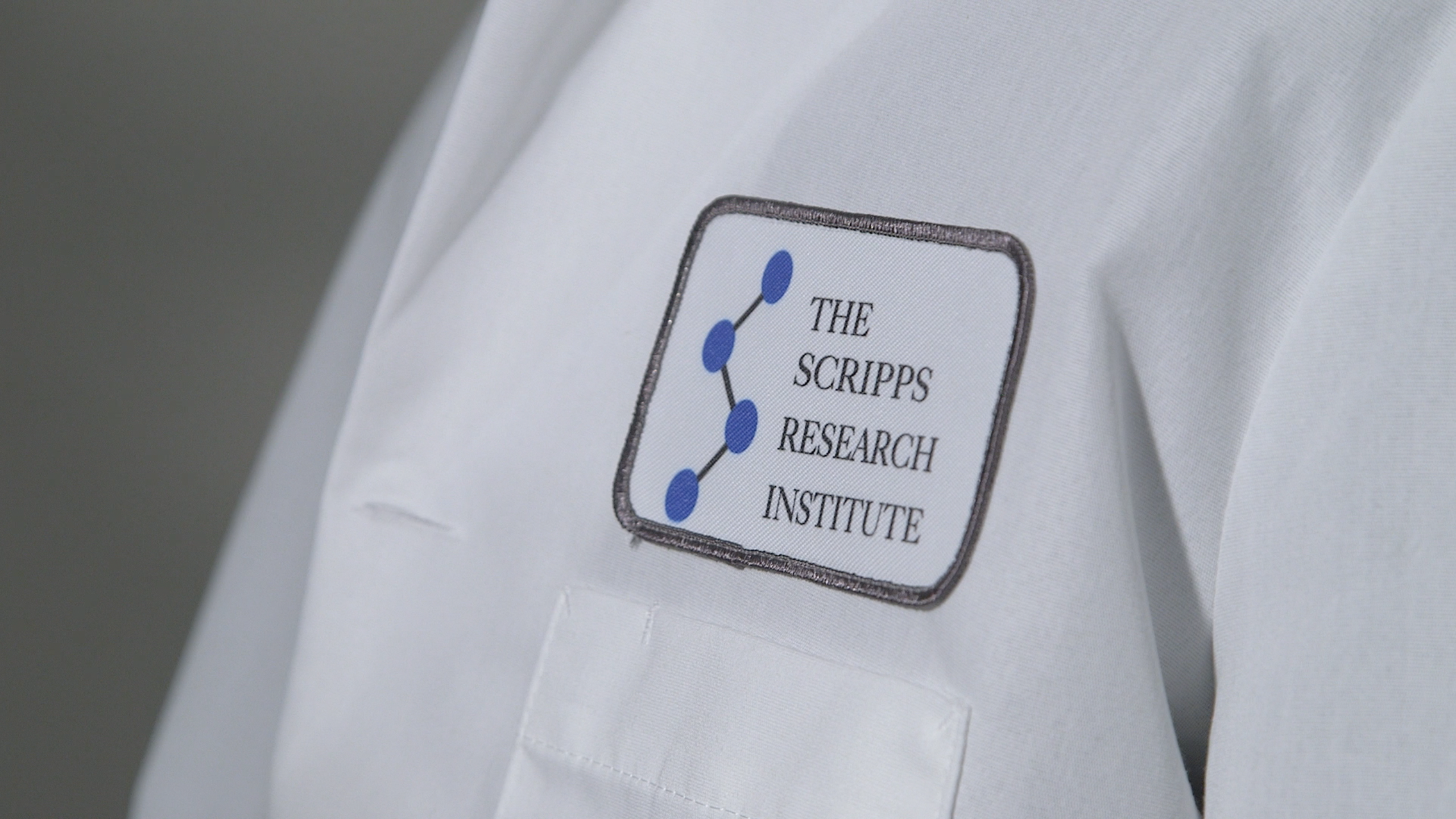 Photo of a white lab coat with a patch indicating "The Scripps Research Institute"